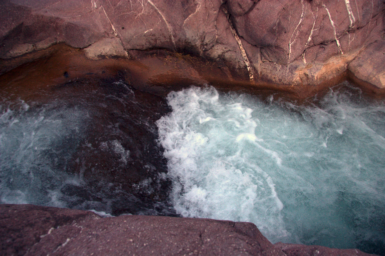 Fossil Creek (Arizona) rapids)